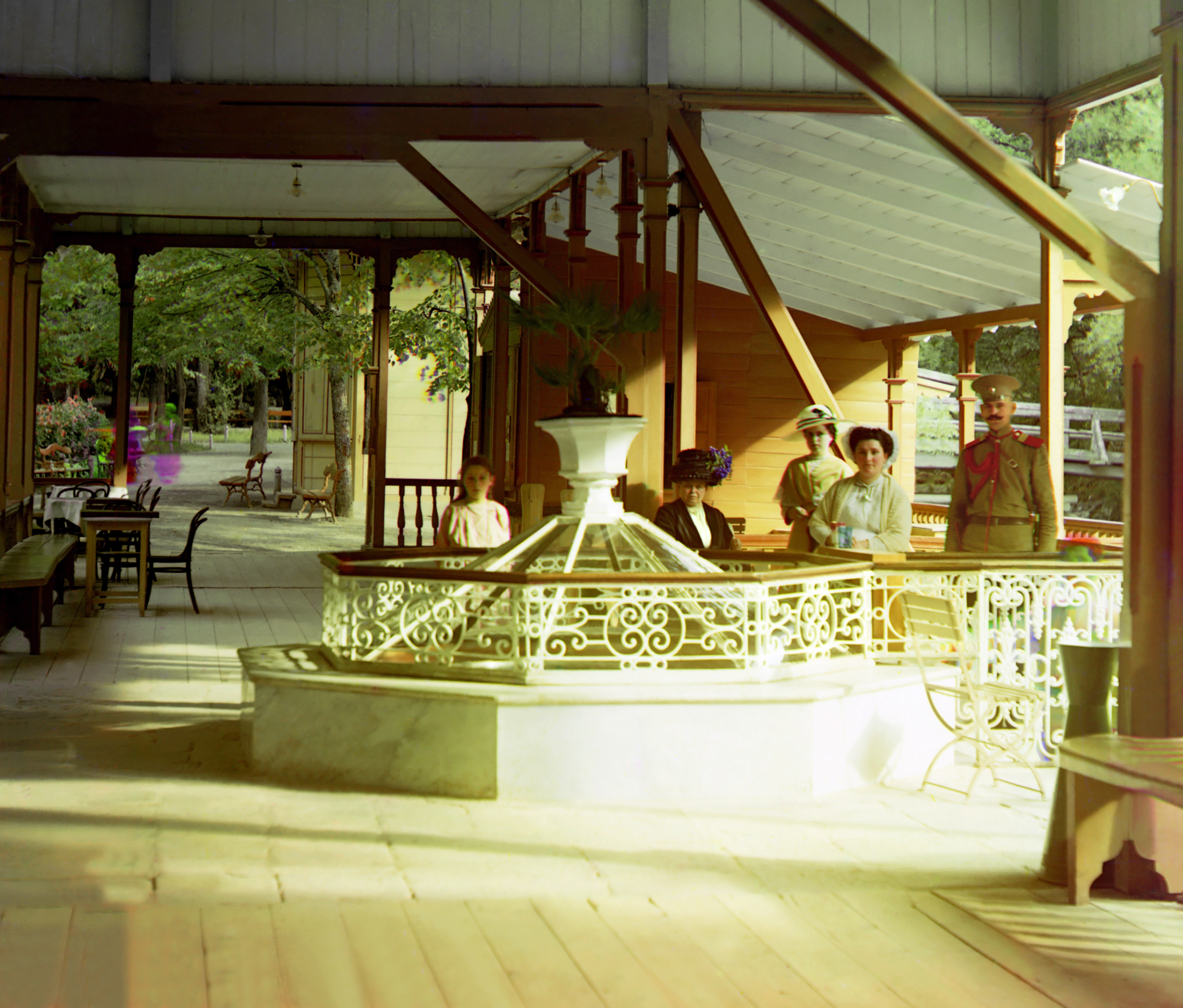 Original Description: Ekaterinin spring. Borzhom. People standing near Ekaterinin, or Catherine's, Spring at a spa in Borzhom.